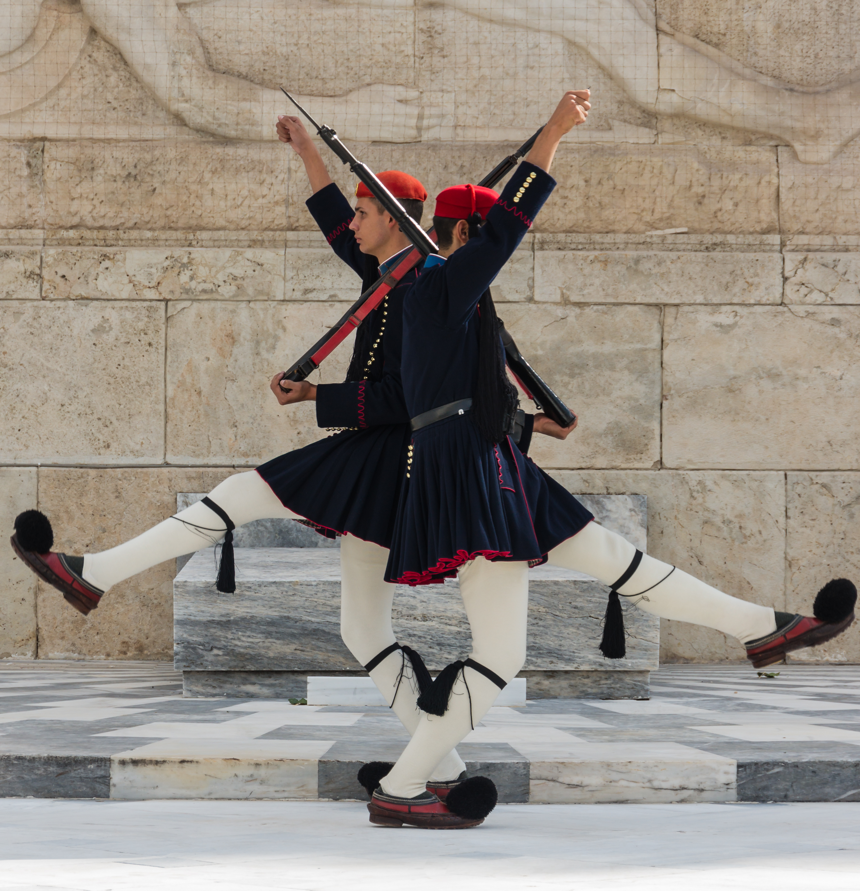 Two Evzones of the greek army, crossing in front of the tomb of the Unknown Soldier, Athens, Greece.